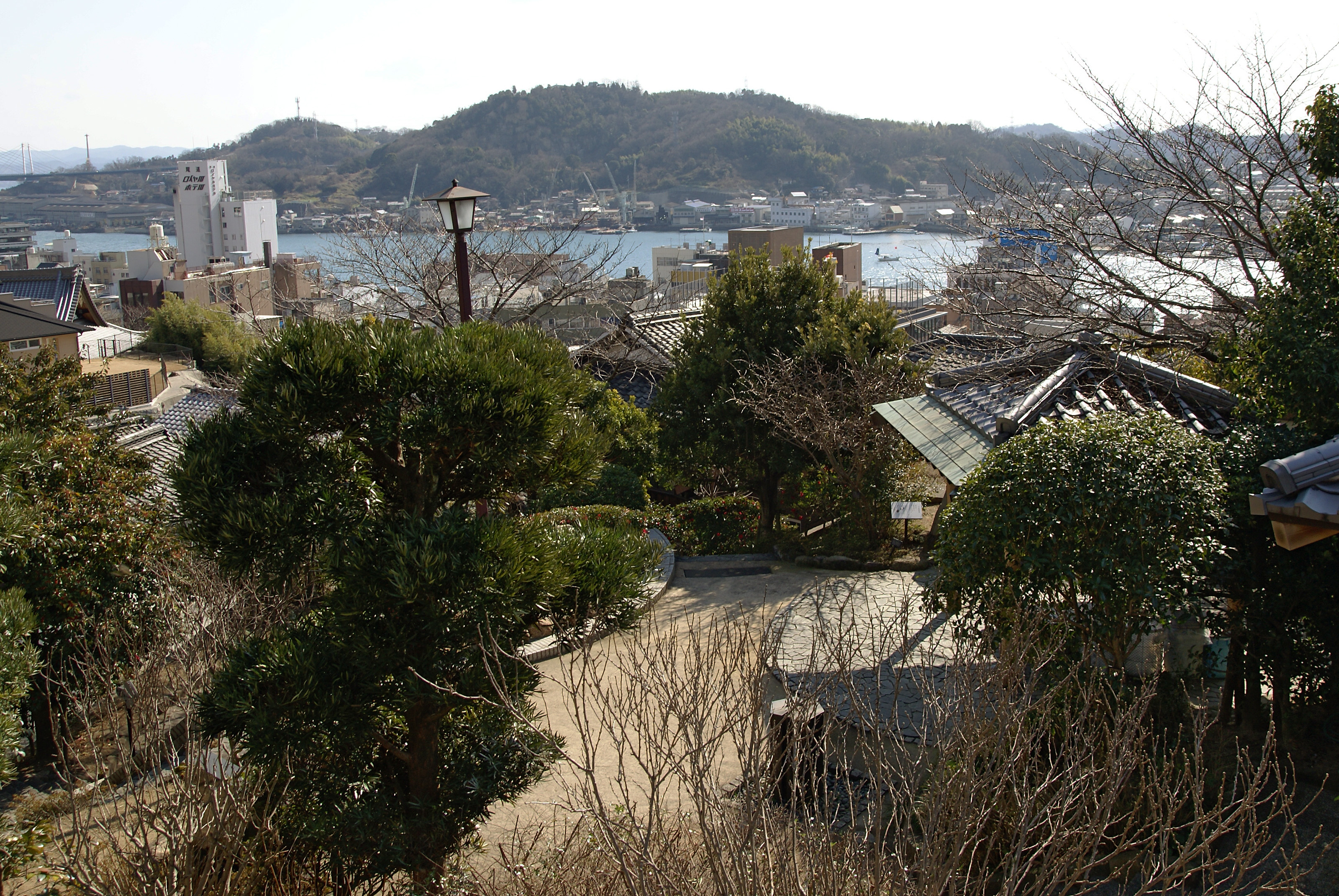 A Mansion of Literature Onomichi "Onomichi-shi Bungaku-koen" in Onomichi, Hiroshima prefecture, Japan